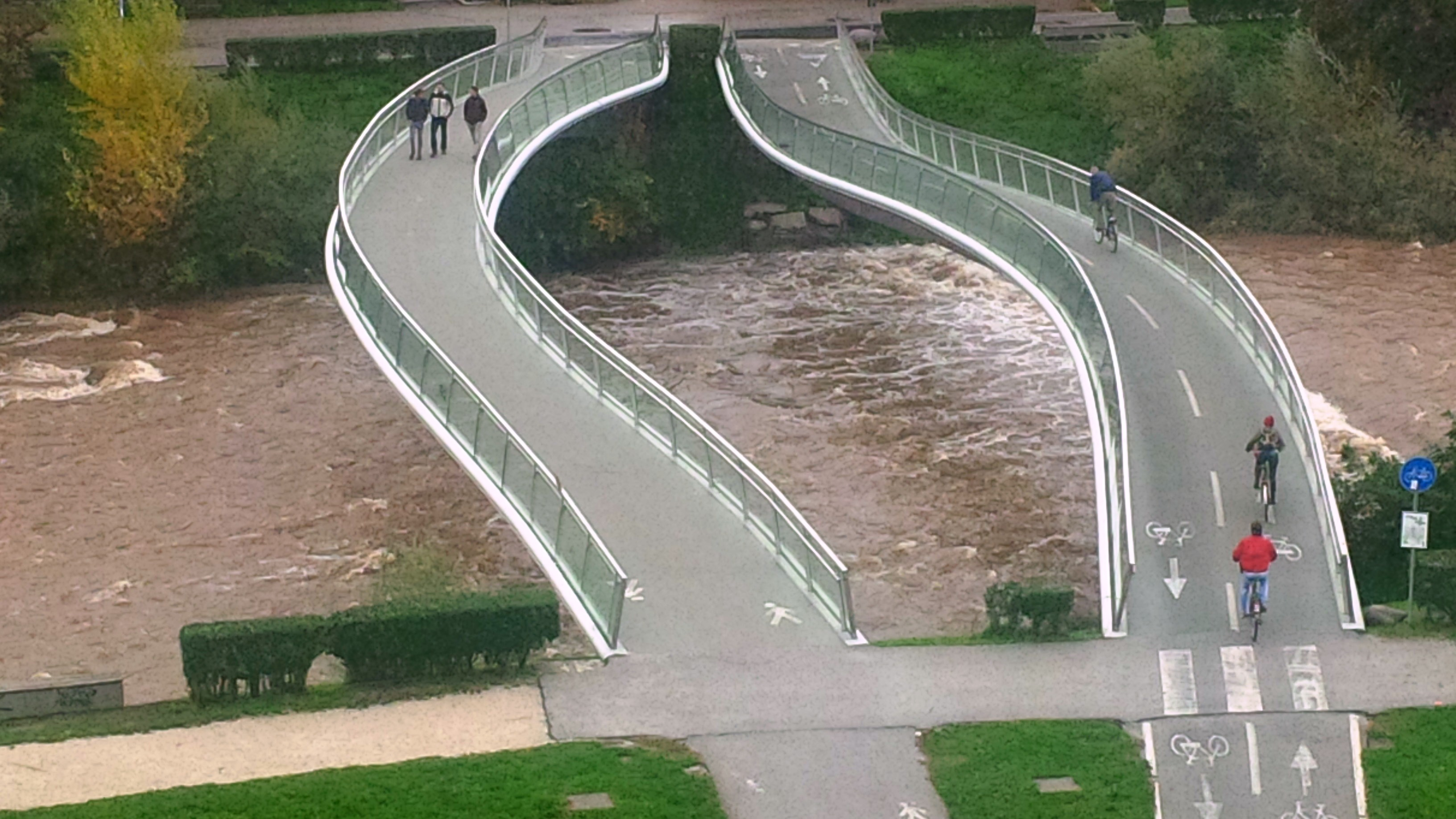 Pedestrian and bicycle bridge in Bolzano